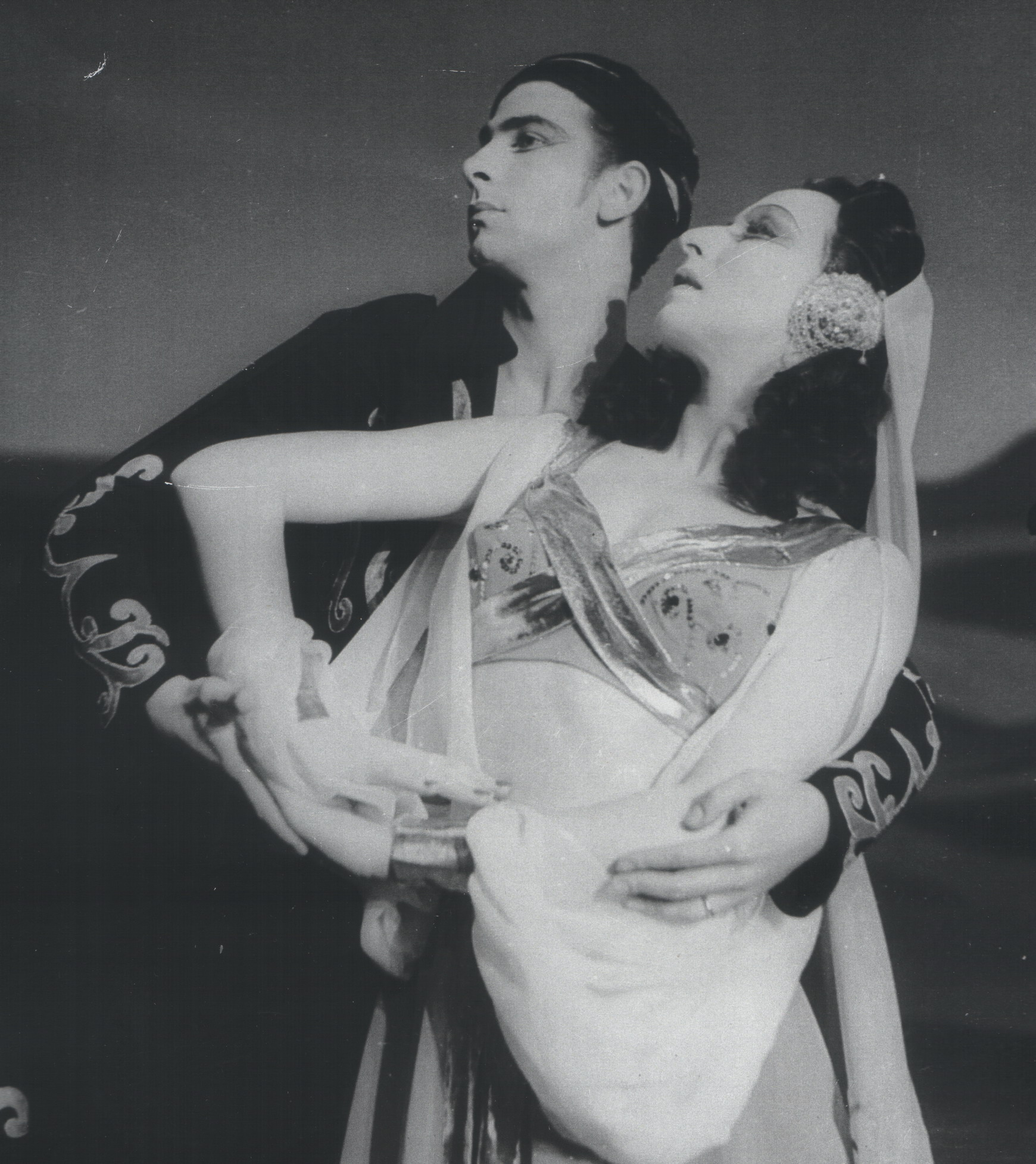 Guido Lauri e Attilia Radice, danzatori étoiles del Teatro dell'Opera di Roma (anni '50).